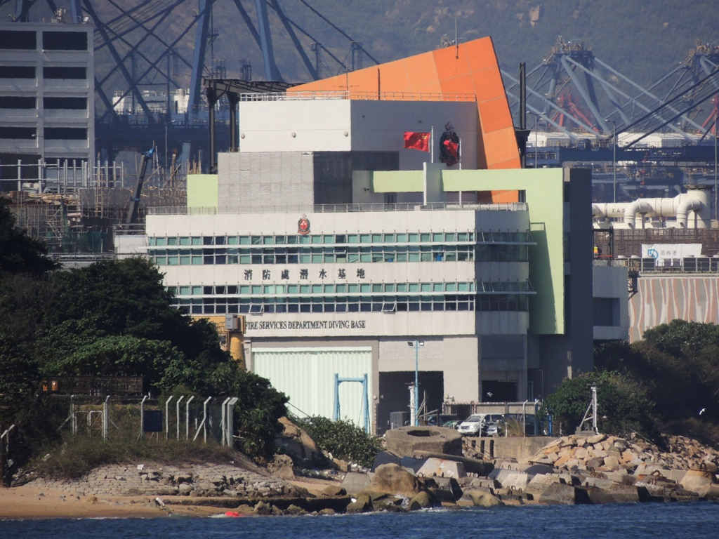 Fire Services Department Diving Base